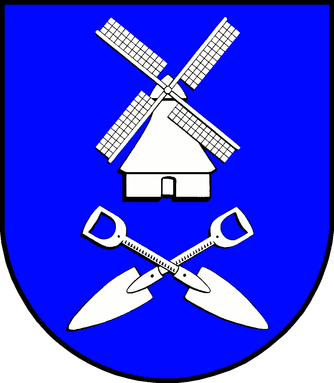 Coat of arms of the municipality Vaalermoor in Schleswig-Holstein, Germany.